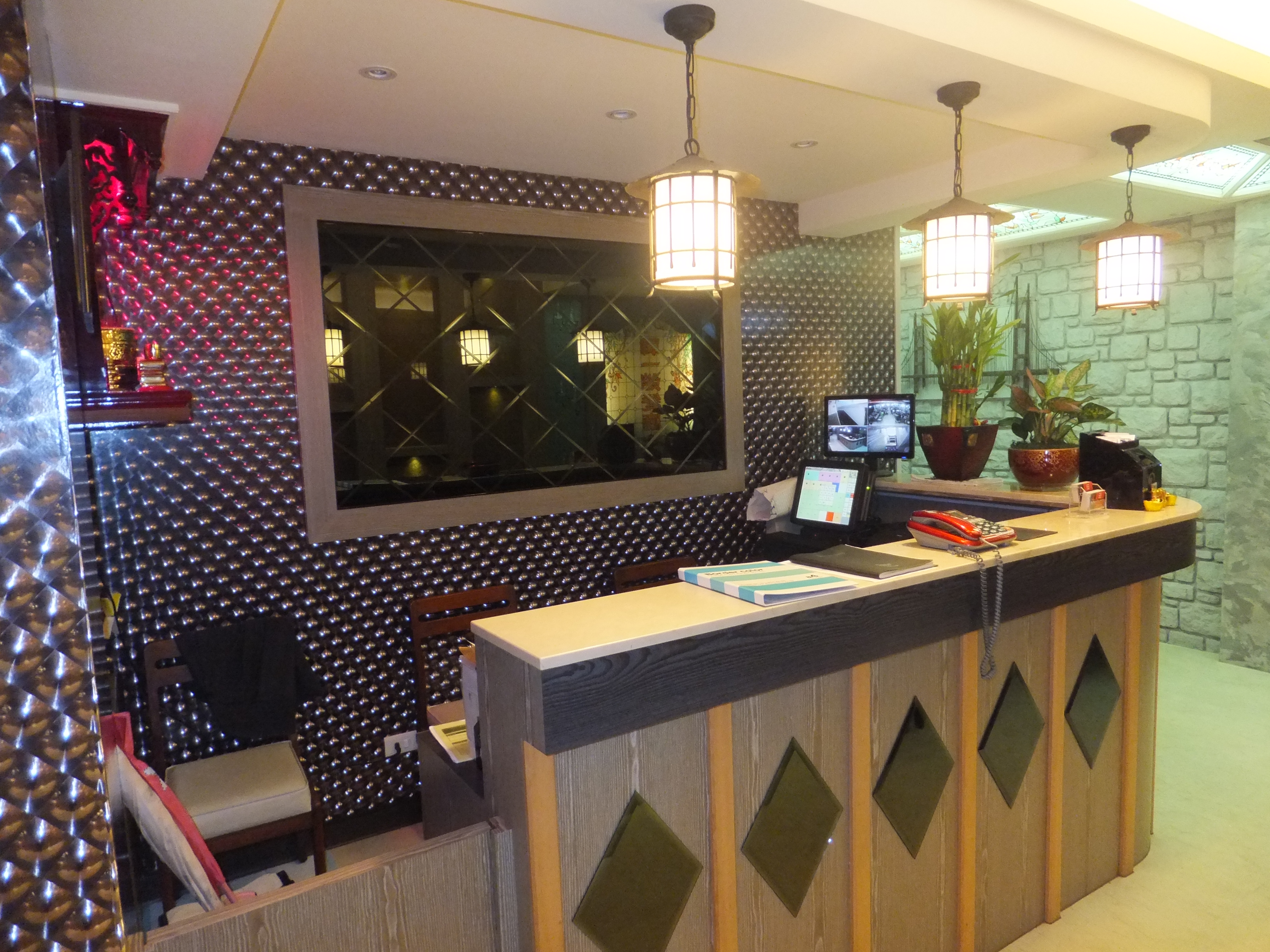 Counter and circular lanterns in the Hanyiguan Restaurant, Taipei, Taiwan